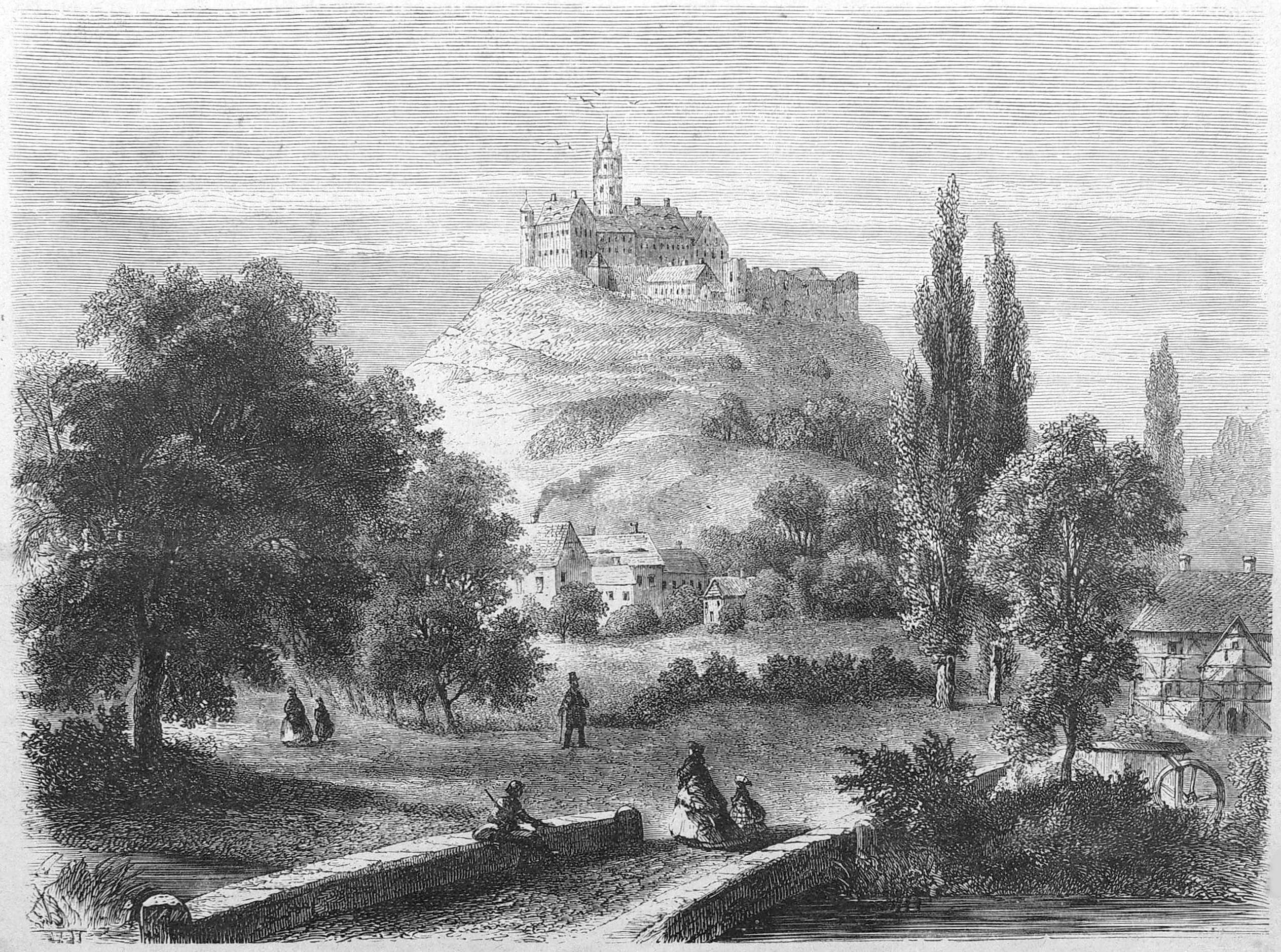 caption: "Die Ronneburg."